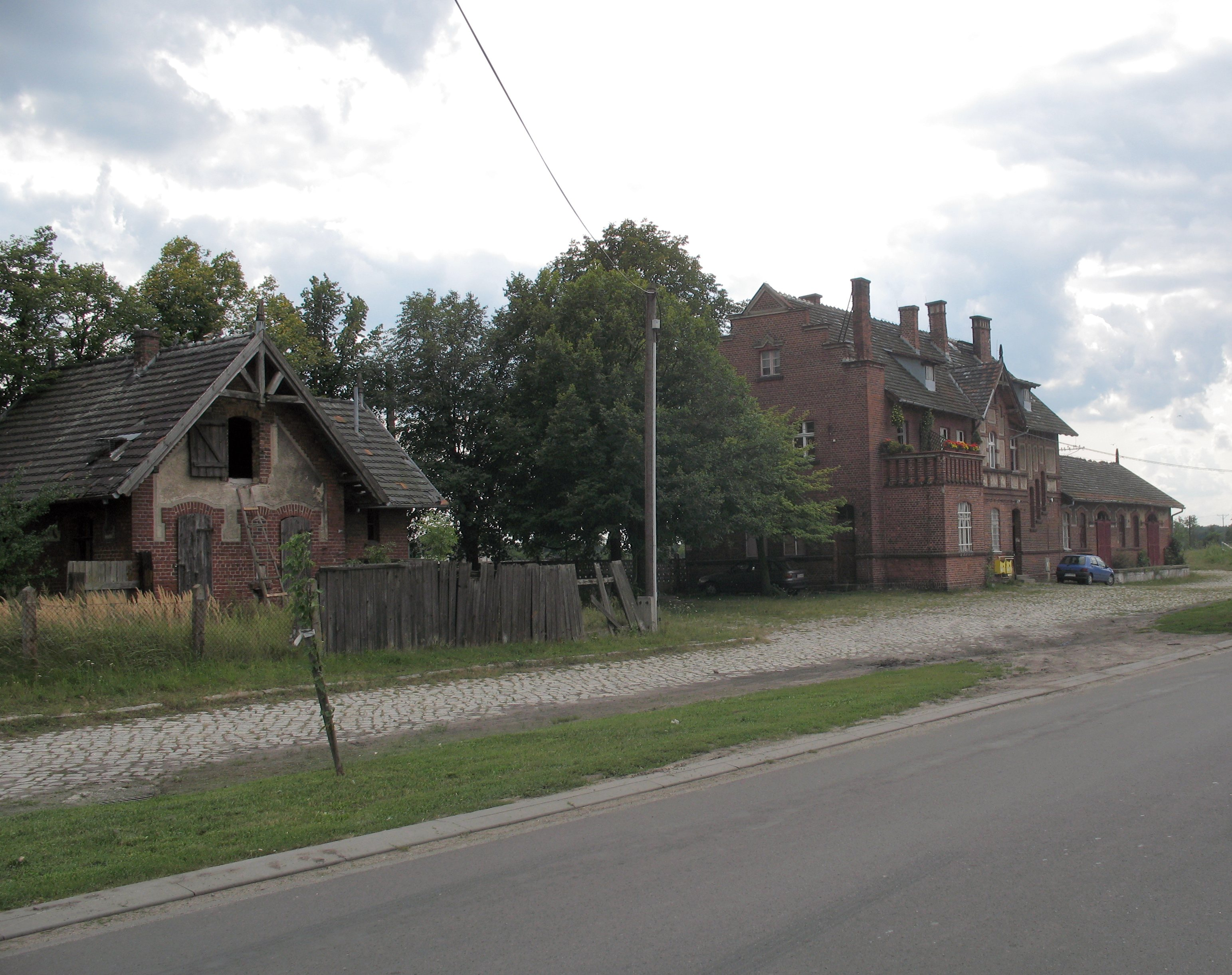 Buildings of the former railway station in Kargowa, Poland